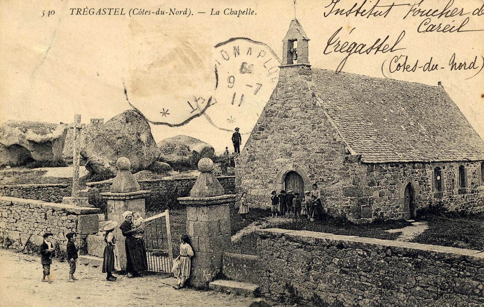 Chapelle Sainte-Anne-des-Rochers de Trégastel